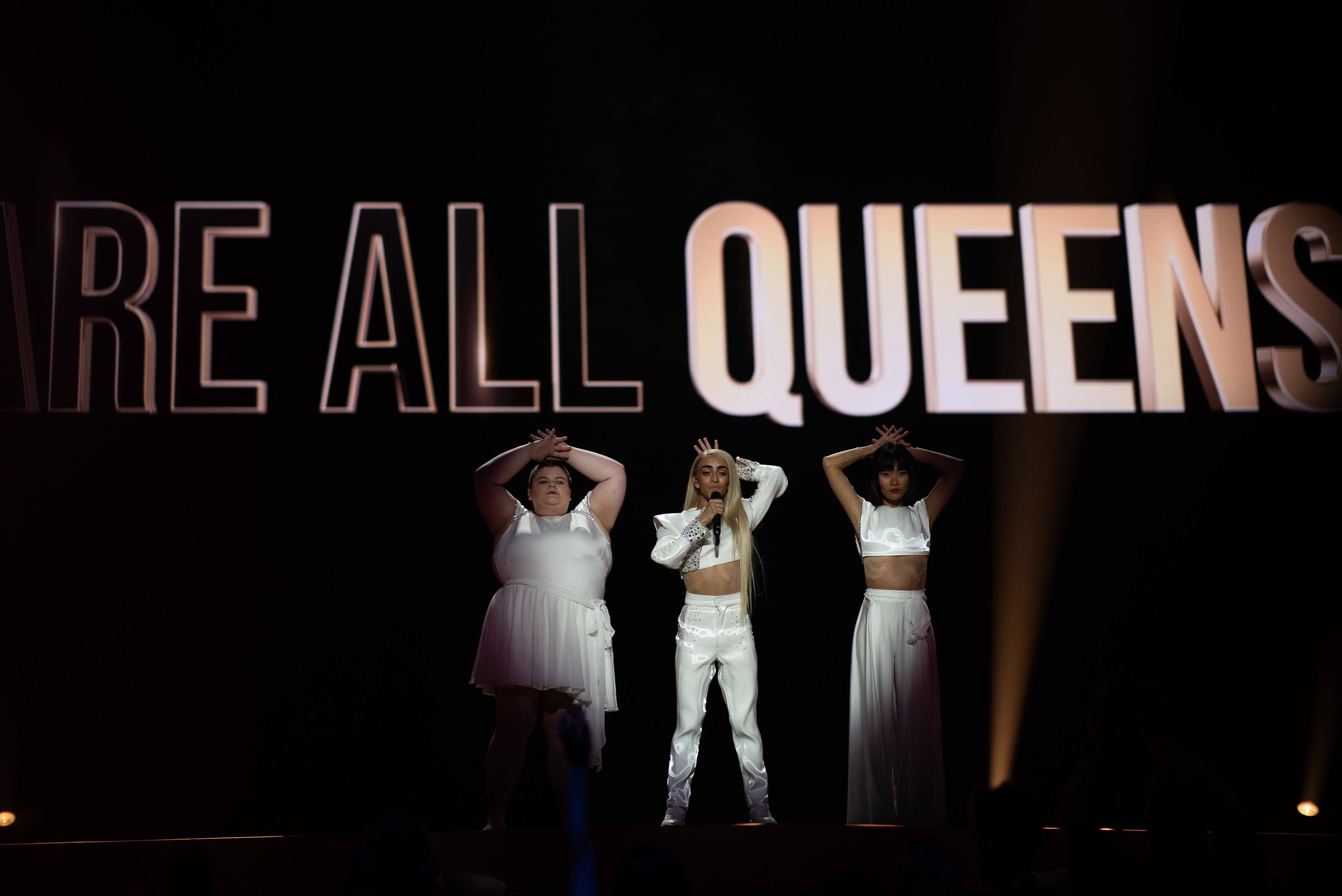 Bilal Hassani representing France with the song "Roi" during a rehearsal before the grand final of the Eurovision Song Contest 2019 in Tel-Aviv.